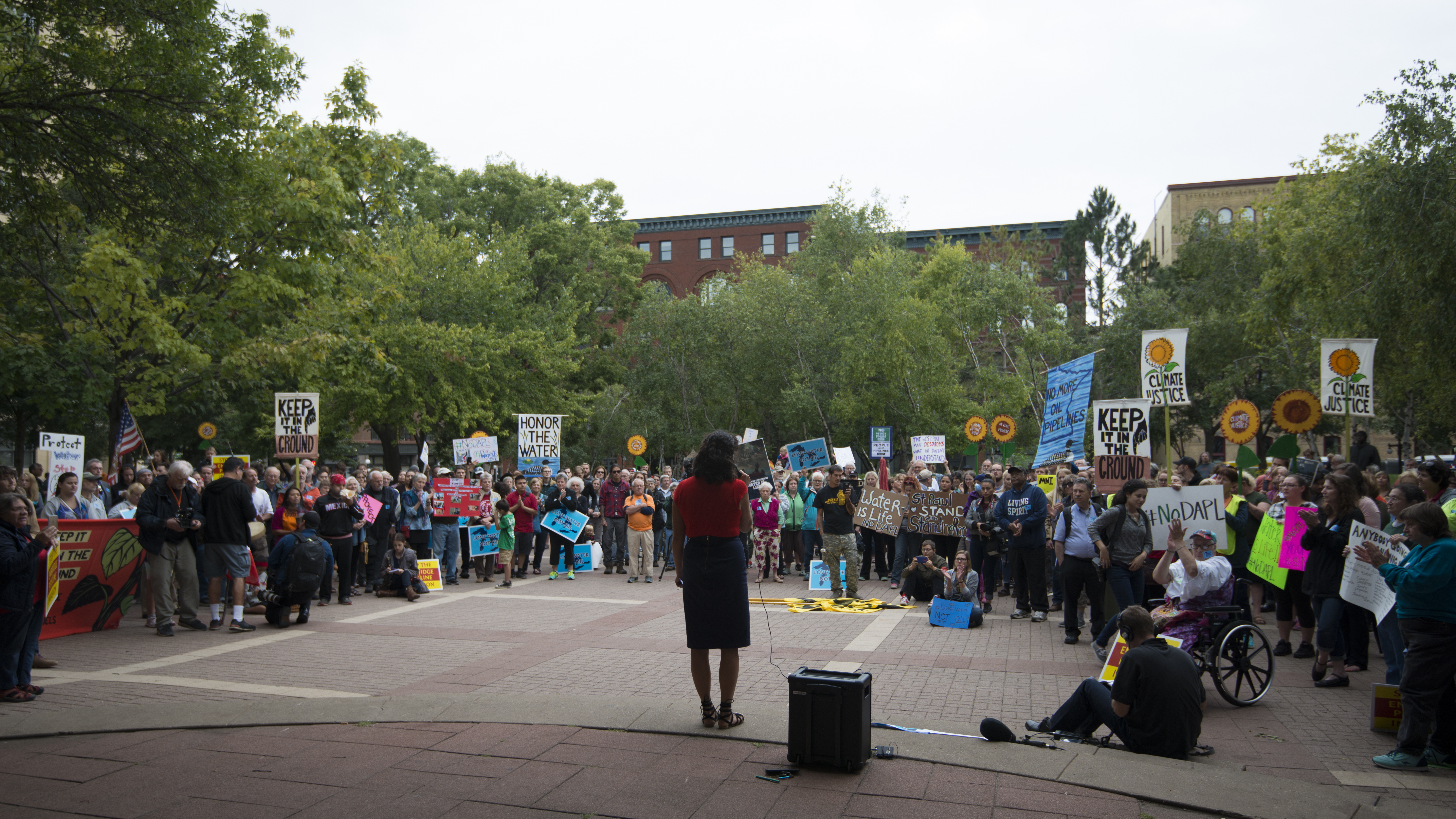 This was one of the solidarity rallies happening around the world this day to show support for the protests against the Dakota Access Pipeline. The planned pipeline will transport 470,000 barrels of oil per day 1,172 miles from North Dakota to Illinois. Protesters called for a stop of the pipeline construction which will pass upstream from the Standing Rock Sioux Nation. Along with the threat to their water supply, the tribe claims the pipeline will destroy burial sites and sacred places.